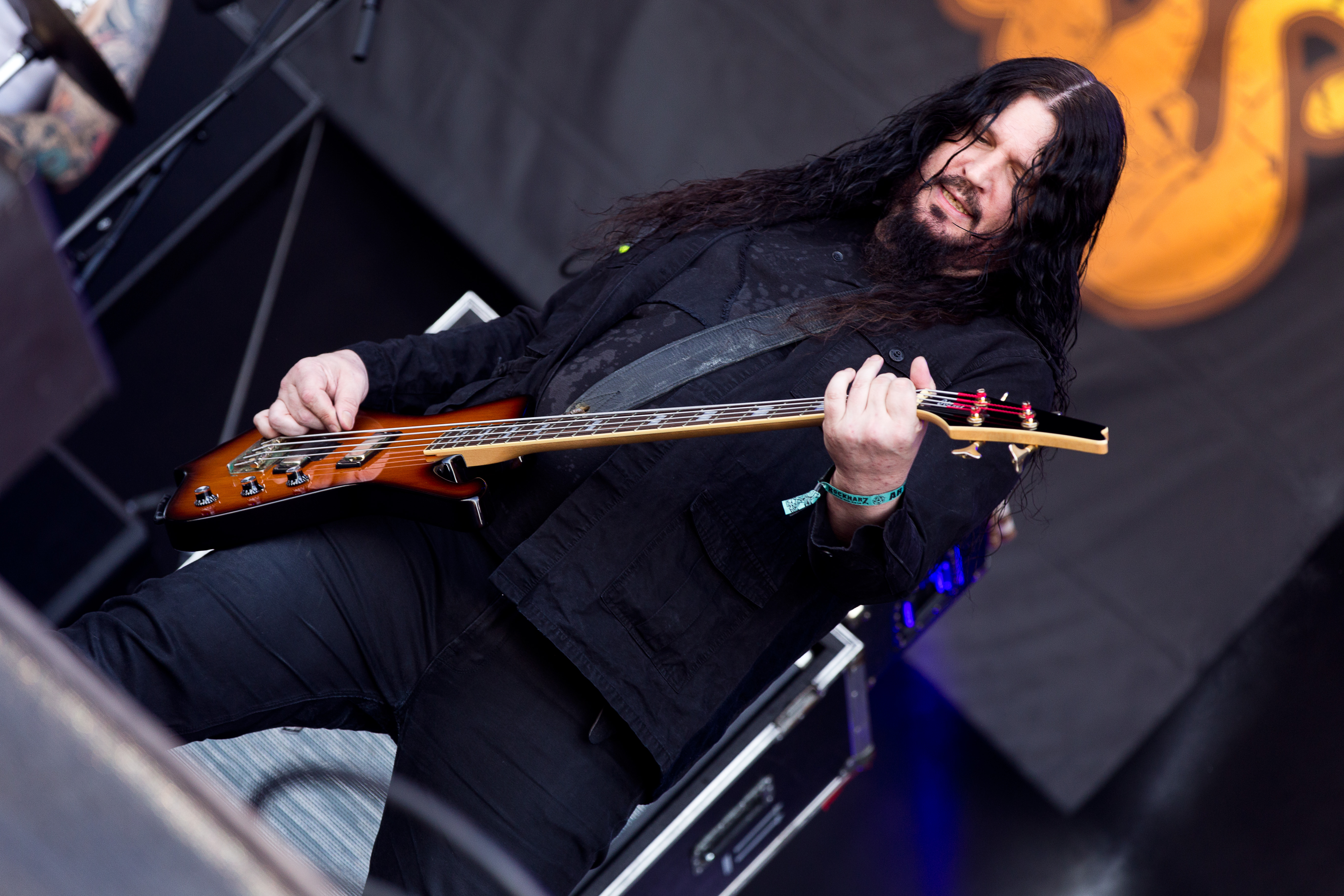 The Swedish stoner metal band Spiritual Beggars at the Rockharz Open Air 2016 in Ballenstedt/Germany.